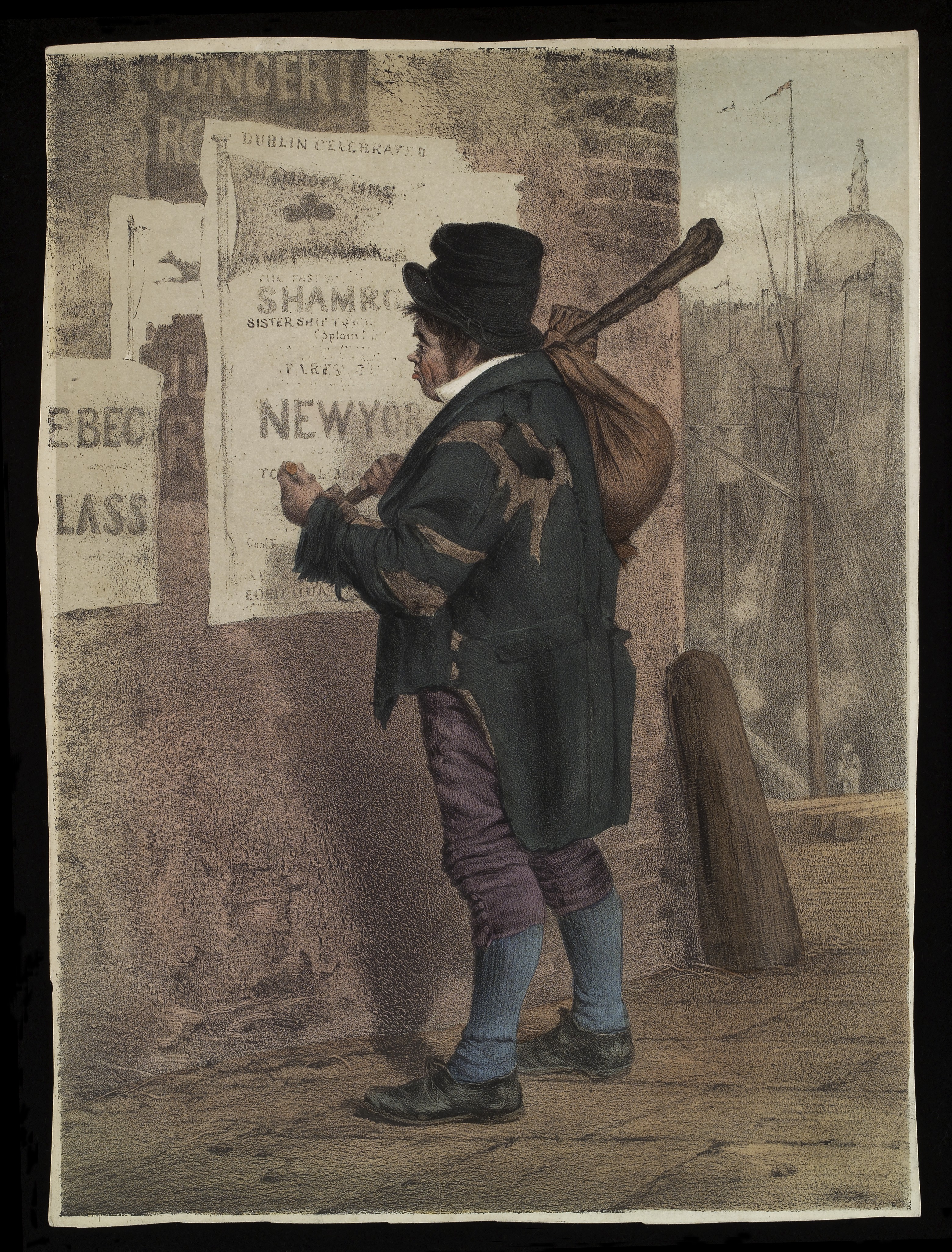 The lettering on the print is entitled 'Outward Bound'. The poster advertises passages from Dublin to New York on the ship Shamrock. Right, the port of Dublin with the dome of the Custom House. There is a companion print, "Homeward bound", showing a prosperous Irishman in New York contemplating a return to Ireland. Iconographic Collections Keywords: Irish; Custom House (Dublin, Ireland); Emigration; Americas; Victorian; Costume; Ireland; America